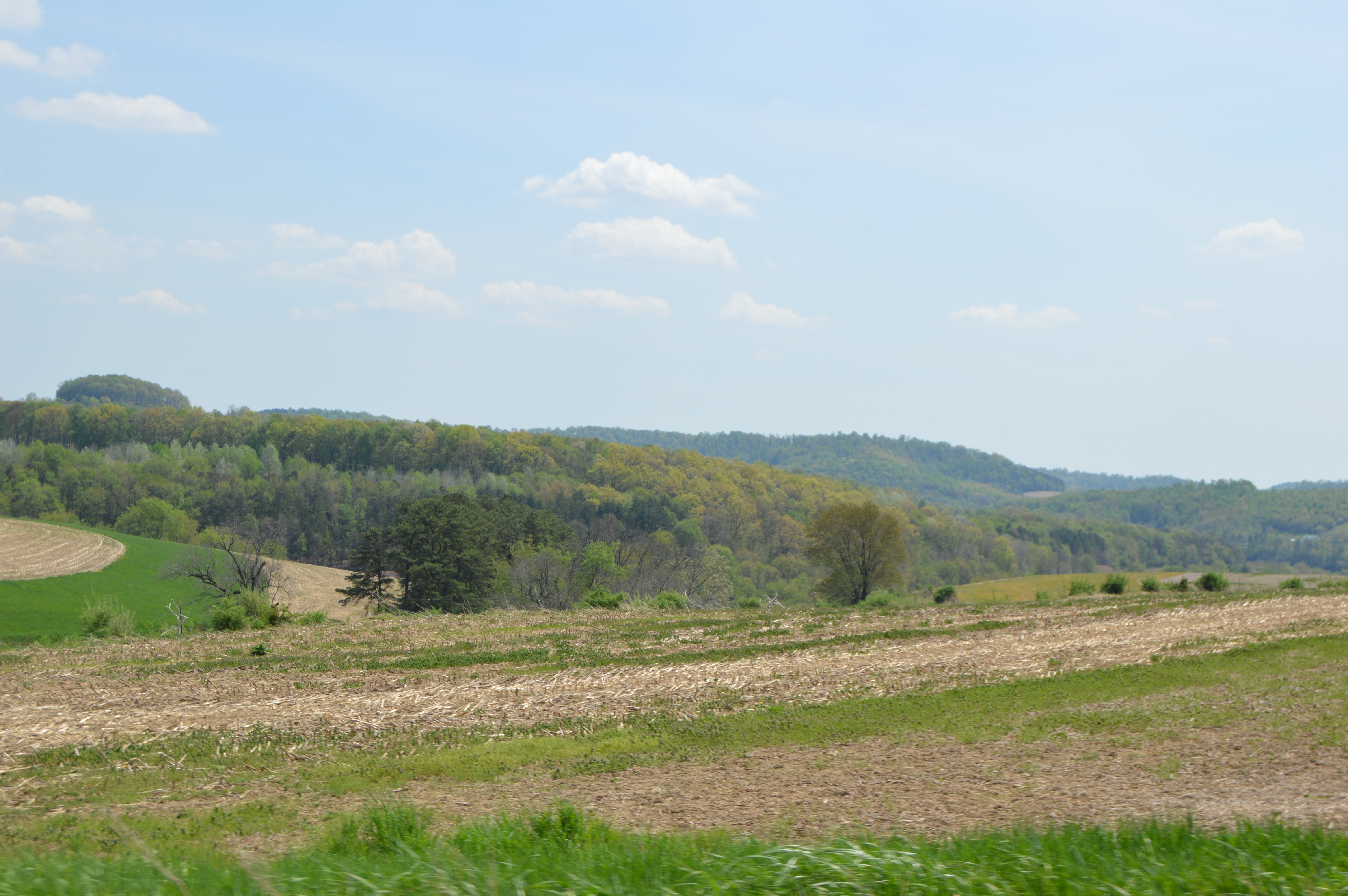 Looking south-southeast from Pennsylvania Route 210 just west of Georgeville in extreme northwestern East Mahoning Township, Indiana County, Pennsylvania, United States.